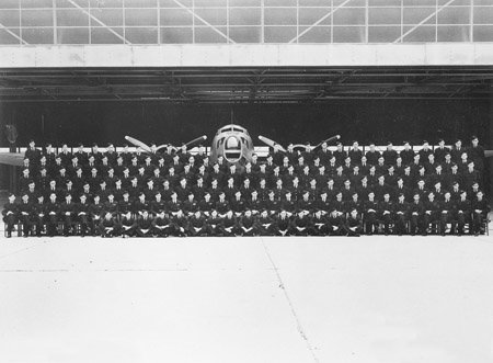 AWM Caption: PEARCE, WESTERN AUSTRALIA, 1940/41. PERSONNEL OF NO 14 SQUADRON RAAF.